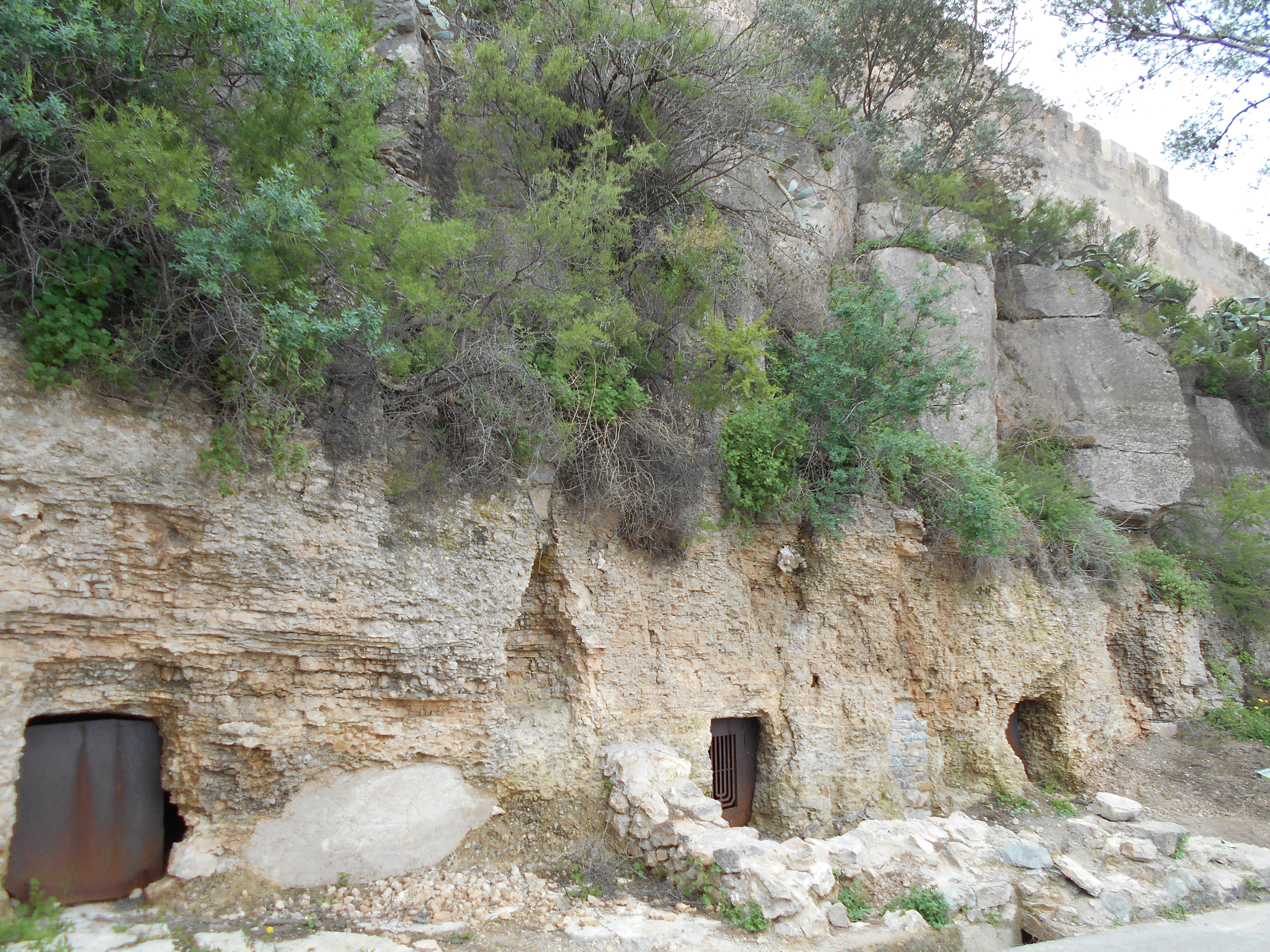 14th century Jewish cemetery, under the walls of Sagunto Castle, Spain.